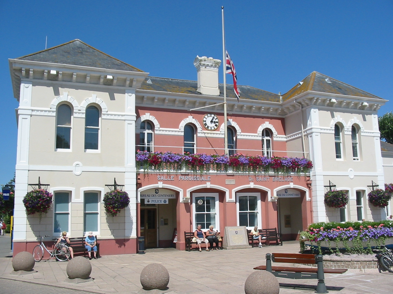 St. Brelade Parish Hall, Jersey (In Jersey Parishes are both municipal and ecclesiastical areas) Flag at half-mast for victims of Category:London bombing, July 2005 Photo taken by Man vyi with Canon PowerShot A40 on 8/7/2005